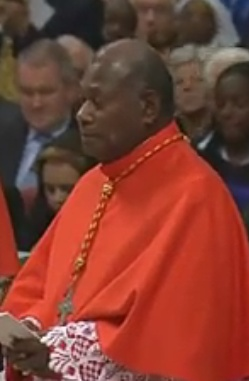 Cardinal John Ribat was the Archbishop of Port Moresby when created a cardinal last November 19, 2016 and given the titular churh of San Giovanni Battista de Rossi.